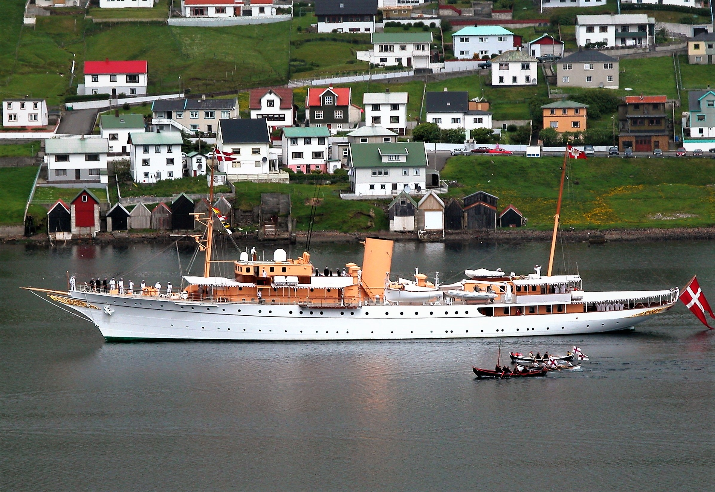 Royal visit in Vágur, Faroe Islands.